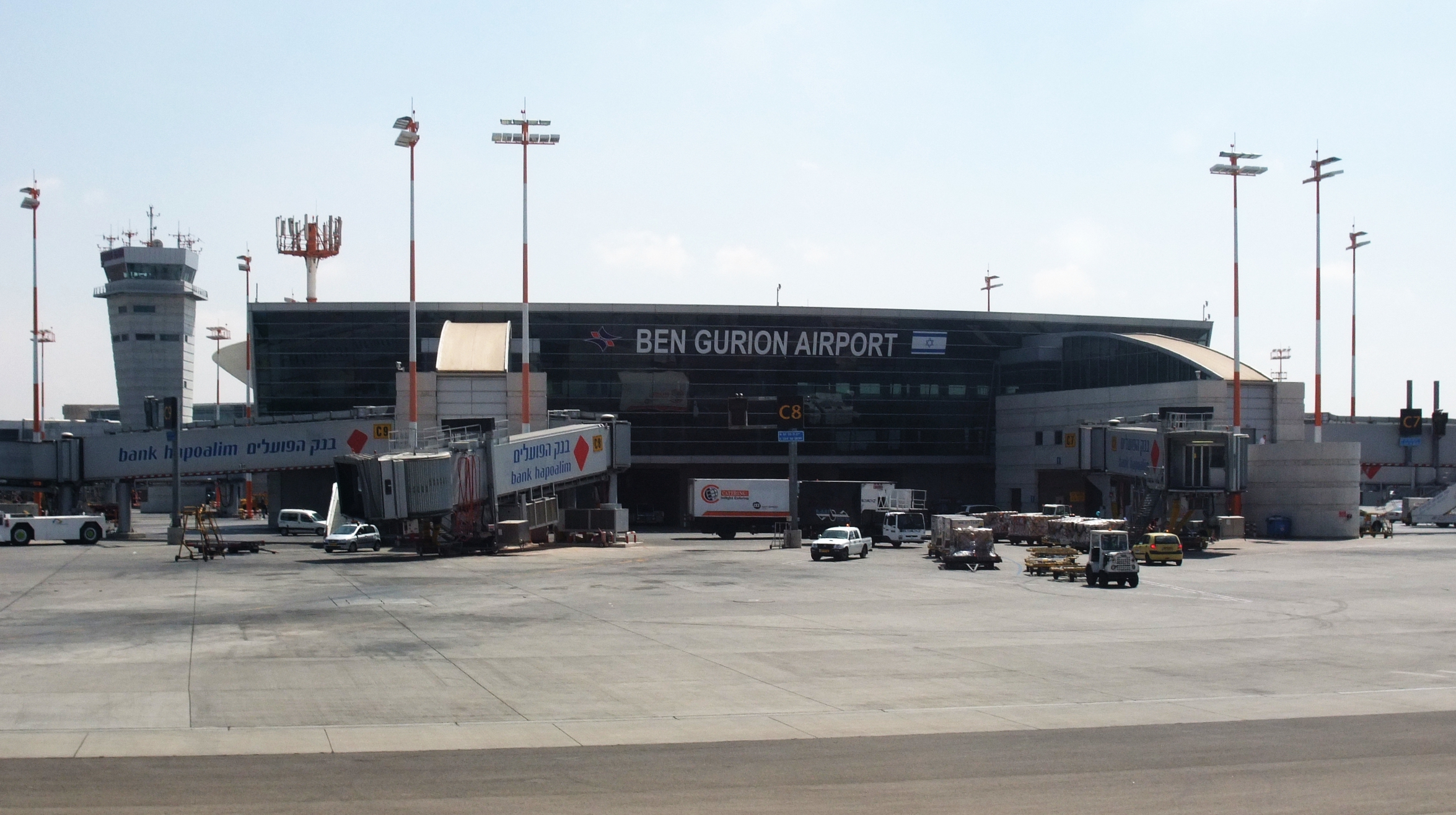 Ben Gurion Airport (TLV) in 2008